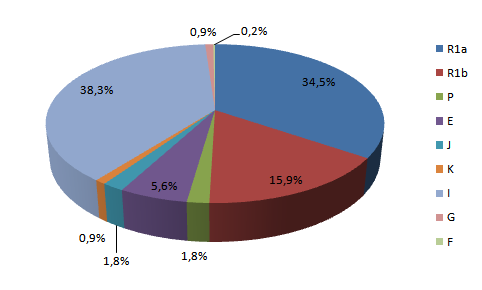 Y chromosomal heritage of Croatian population and its island isolates", Baric et al, 2003, European Journal of Human Genetics 2003/11, p535-542